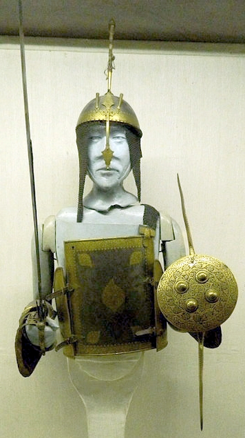 Antique Indian char-aina (chahar-aina) chest armor, kulah khud helmet and madu shield, Mumtaz Mahal Museum, Red Fort, Delhi India.